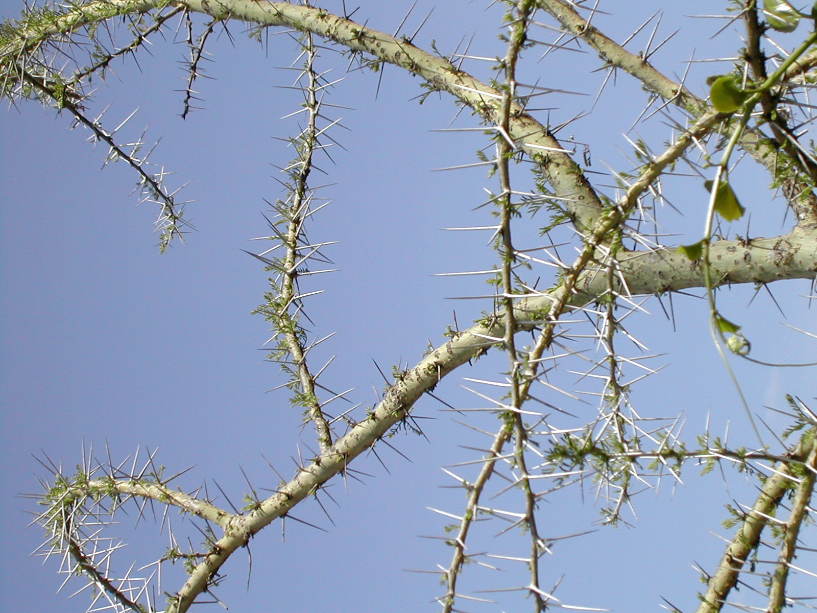 Fever tree near Ngchoni, Kenya